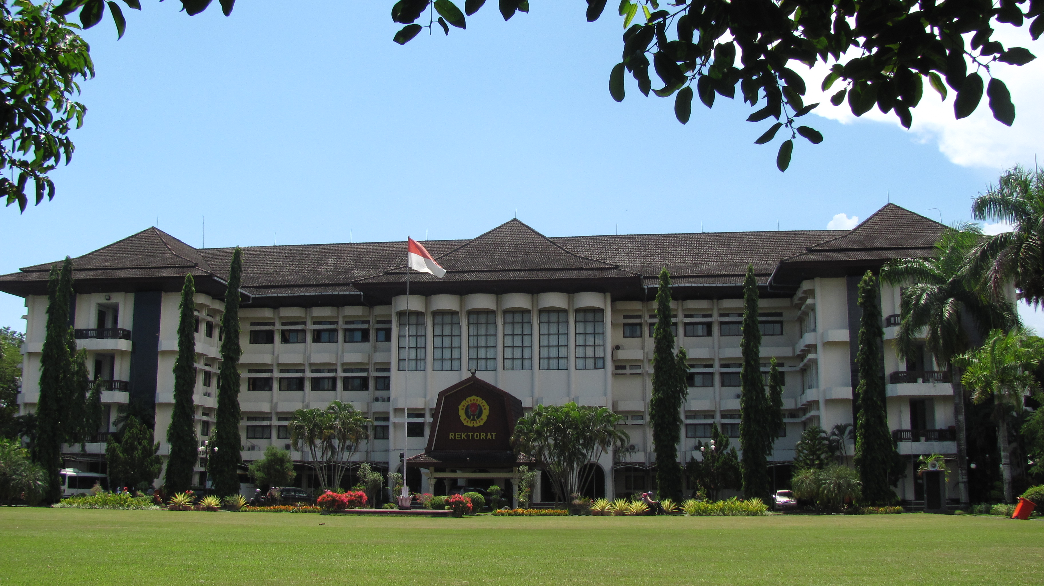 Rektorate, University of Mataram, Mataram, Indopnesia